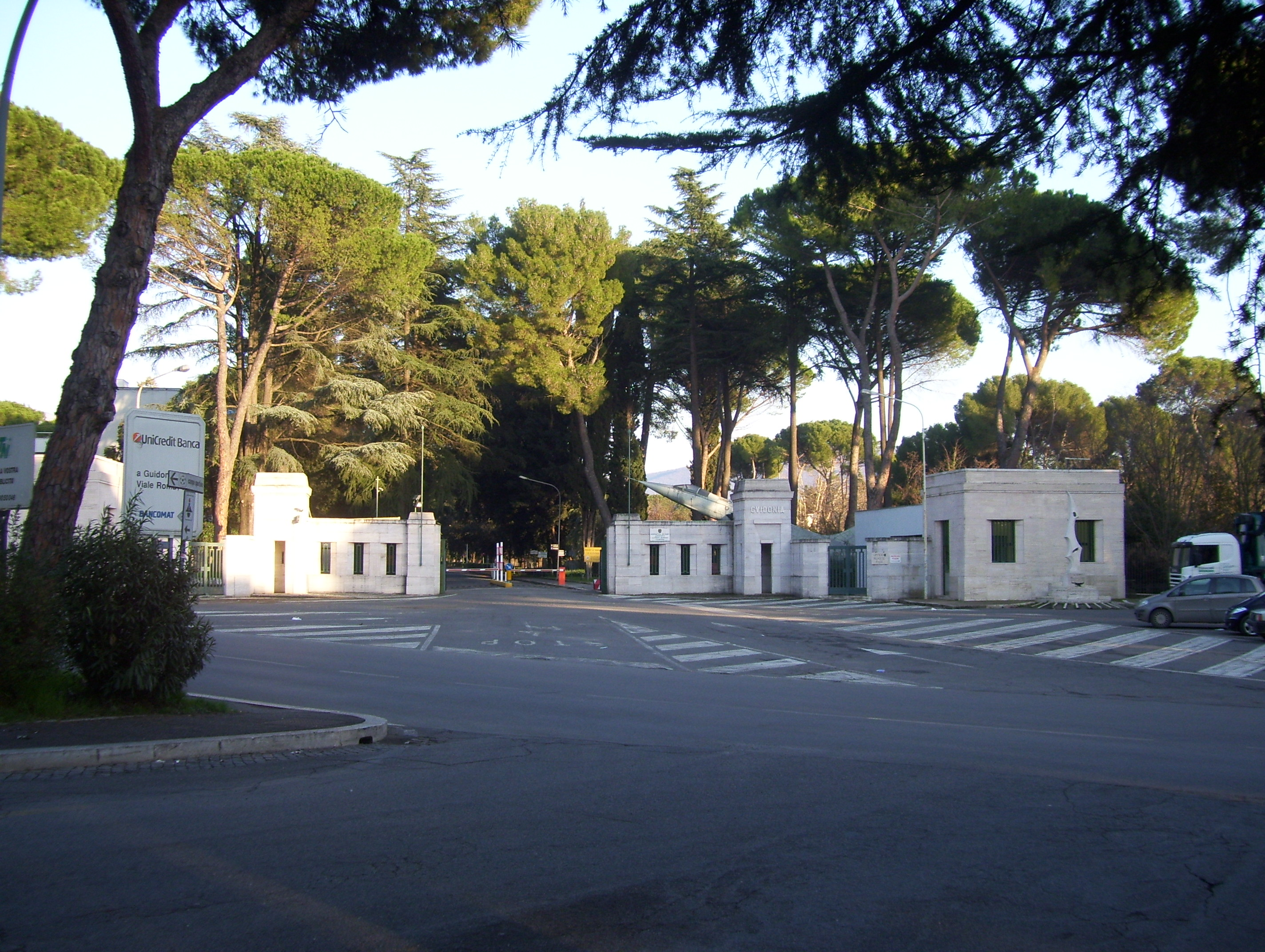 Entrance of Guidonia Airport